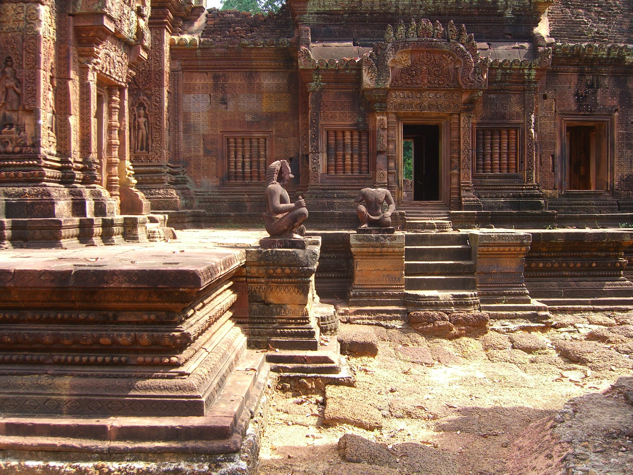 The temple was rediscovered only in 1914, and was the subject of a celebrated case of art theft when André Malraux stole four devatas in 1923 (he was soon arrested and the figures returned). The incident stimulated interest in the site, which was cleared the following year, and in the 1930s Banteay Srei was restored in the first important use of anastylosis at Angkor. Until the discovery of the foundation stela in 1936, it had been assumed that the extreme decoration indicated a later date than was in fact the case. To prevent the site from water damage, the joint Cambodian-Swiss Banteay Srei Conservation Project installed a drainage system between 2000 and 2003. Measures were also taken to prevent damage to the temples walls being caused by nearby trees.